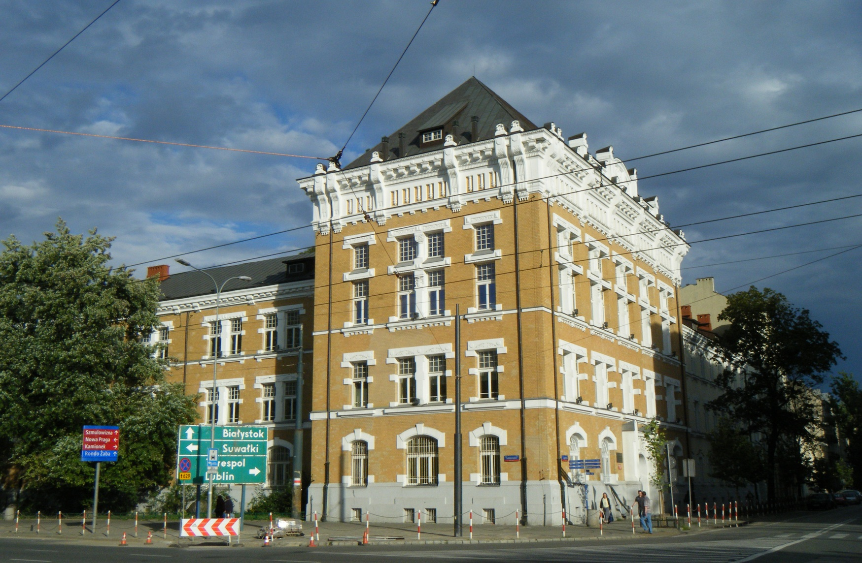 The building of the King Władysław IV in Warsaw. The view from The Praski Park